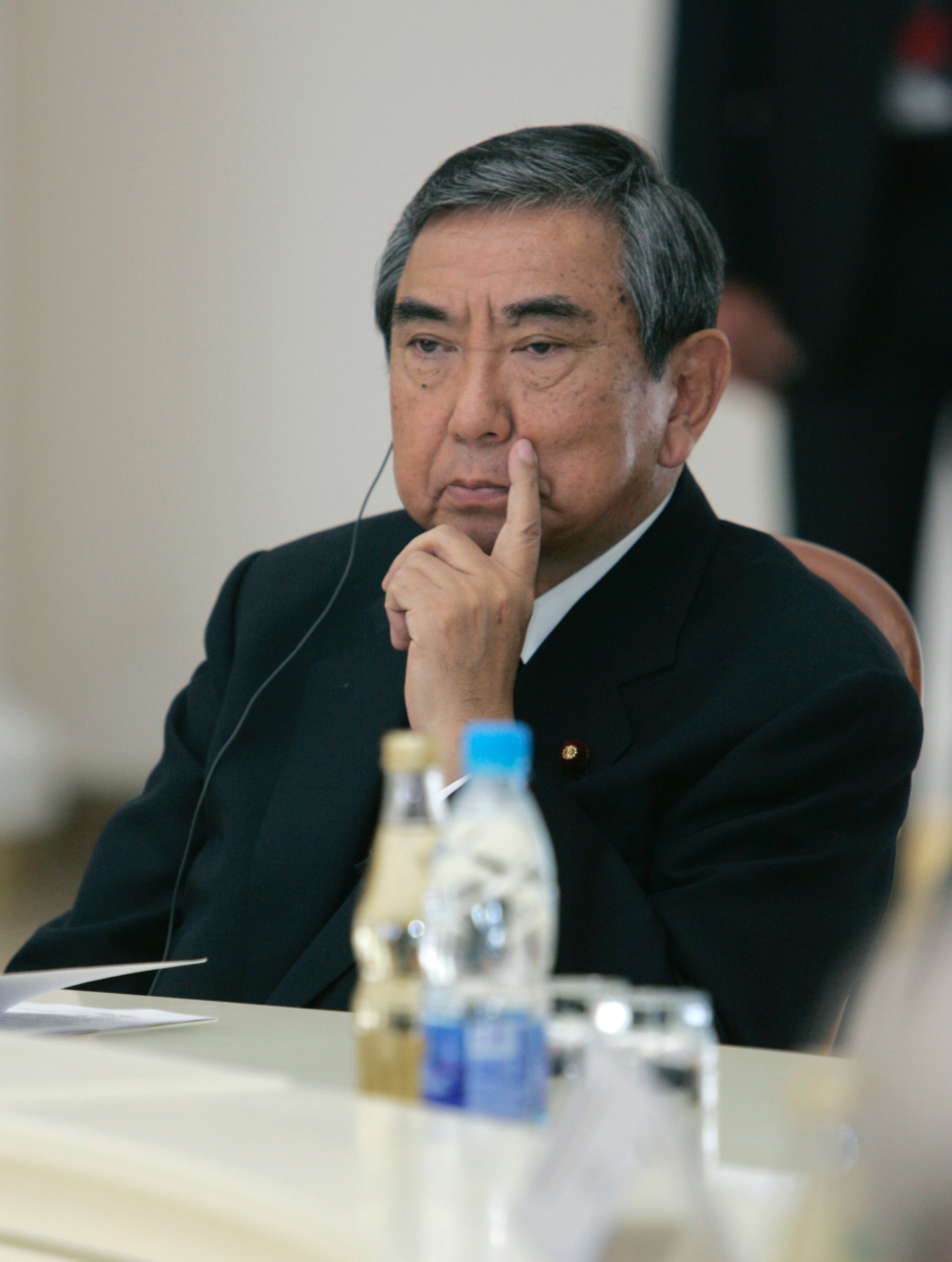 Yohei Kono, speaker of the House of Representatives of the Japanese Parliament, during the meeting of Russian President Vladimir Putin with G8 heads of parliament at the Rus sanatorium, Sochi.